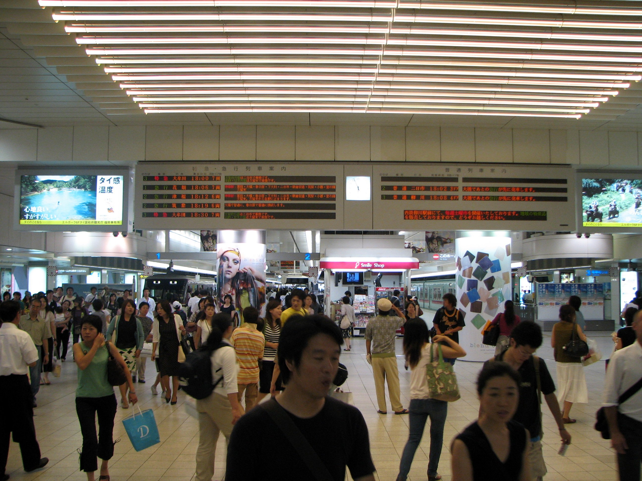 Fukuoka Tenjin Station, the terminal of the Nishi-Nippon Railroad Tenjin Omuta Line